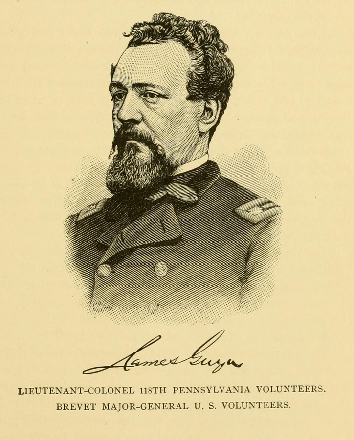 Illustration and signature of James Gwyn